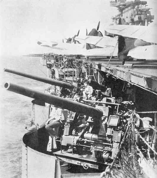 5"/38 Mark 12 dual-purpose guns #6 and #8 of the IV. battery on the aft-port side of the USS Enterprise (CV-6). Wake Island raid, 24 February 1942.